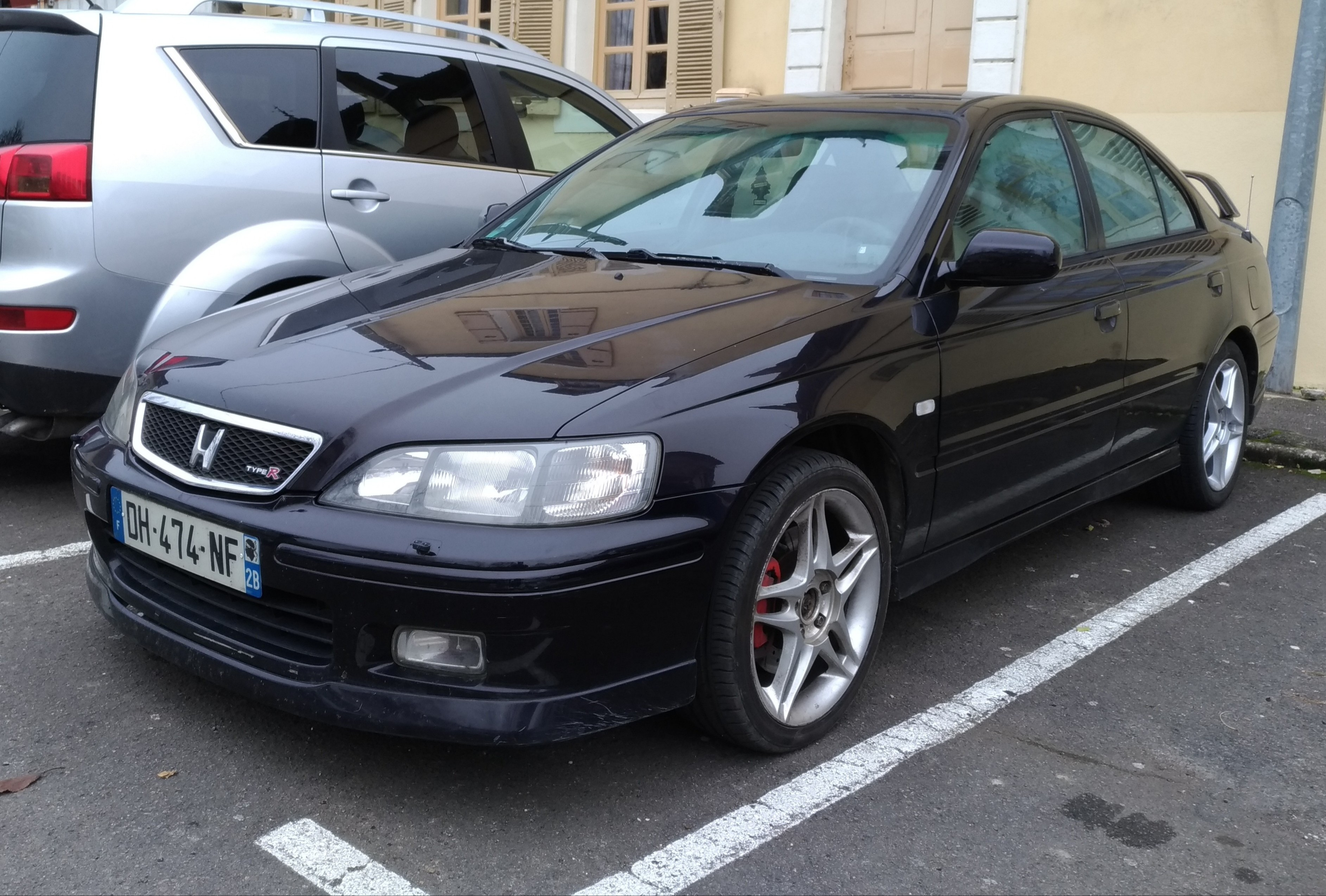 1999 Honda Accord Type R (2.2 213 hp) at Chalon sur Saône